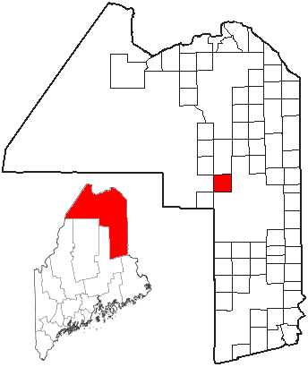 Adapted from U.S. Census Bureau maps (American FactFinder) and Wikipedia's ME county maps by Bumm13.